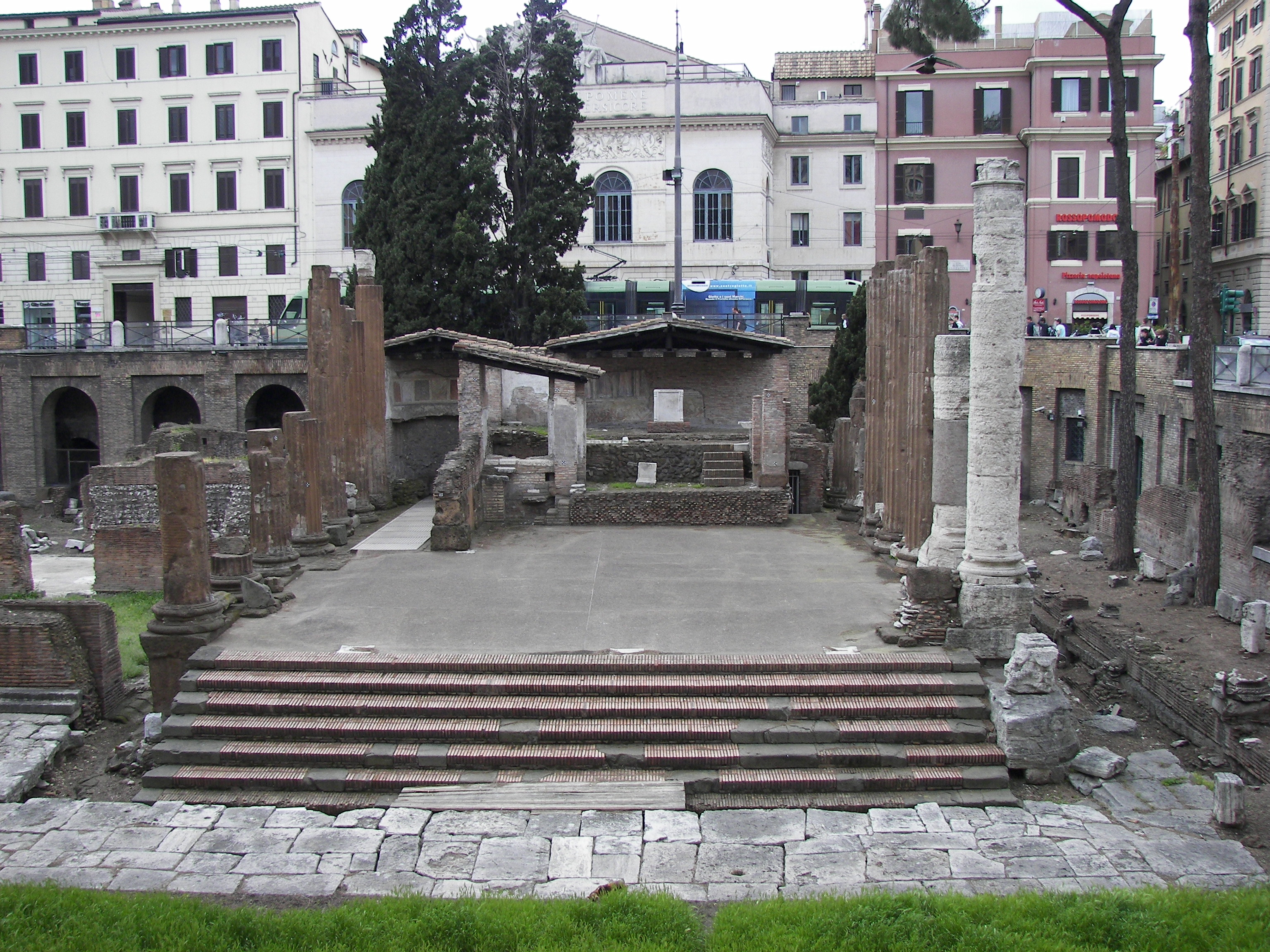 Temple A of Largo di Torre Argentina in Rome.